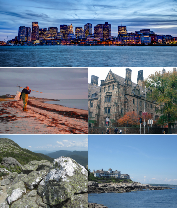 Collage of images related to New England. Clockwise from top: skyline of Boston, Massachusetts at night; building of Yale University in New Haven, Connecticut; Nubble Light on Cape Neddick, Maine; view from Mount Mansfield, Vermont; and a fisherman on Cape Cod, Massachusetts.